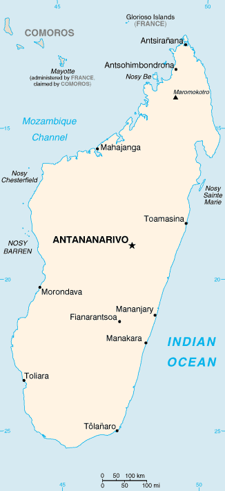 Map of Madagascar showing major cities.